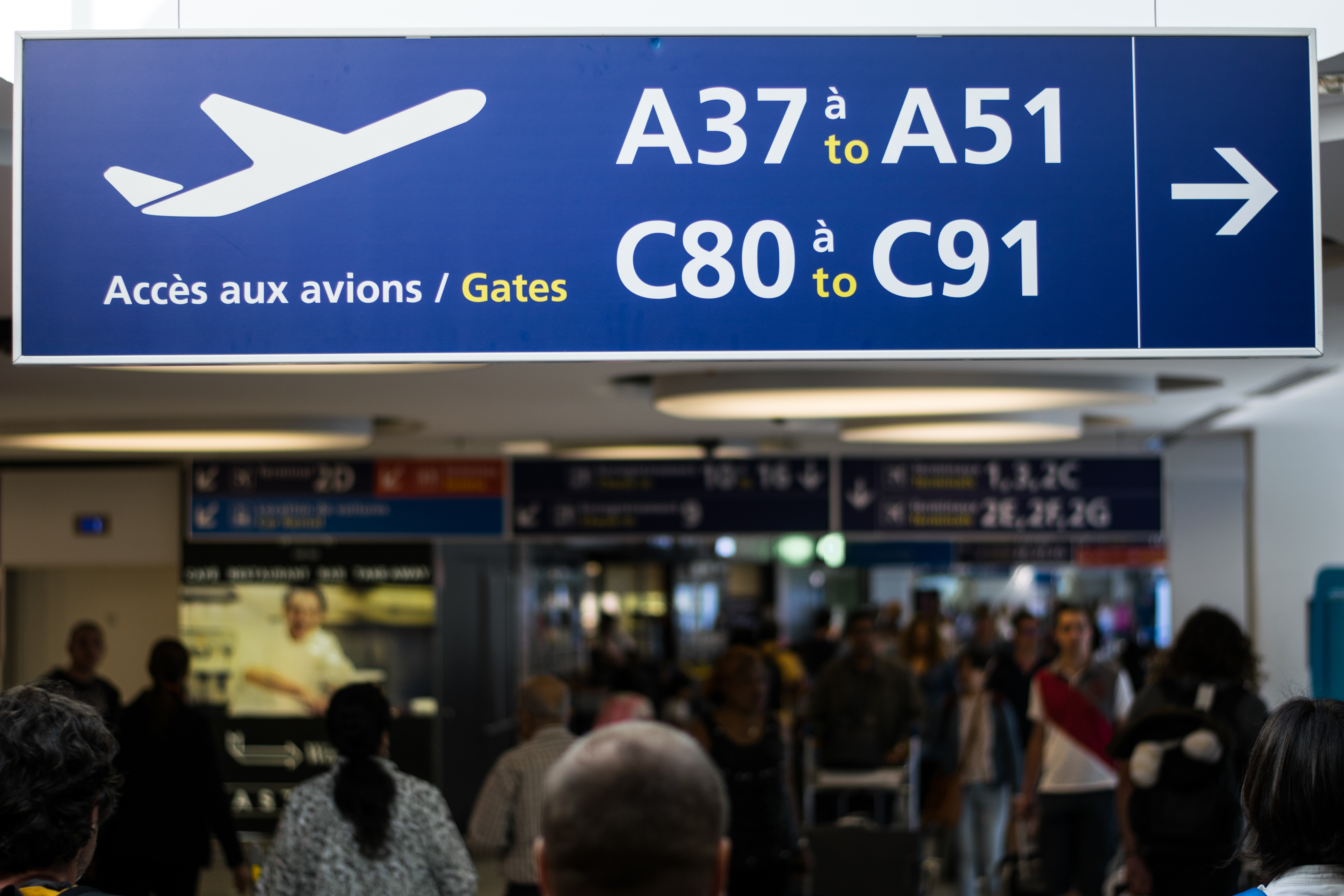 Hall of the Charles de Gaulle Airport (Paris, France).